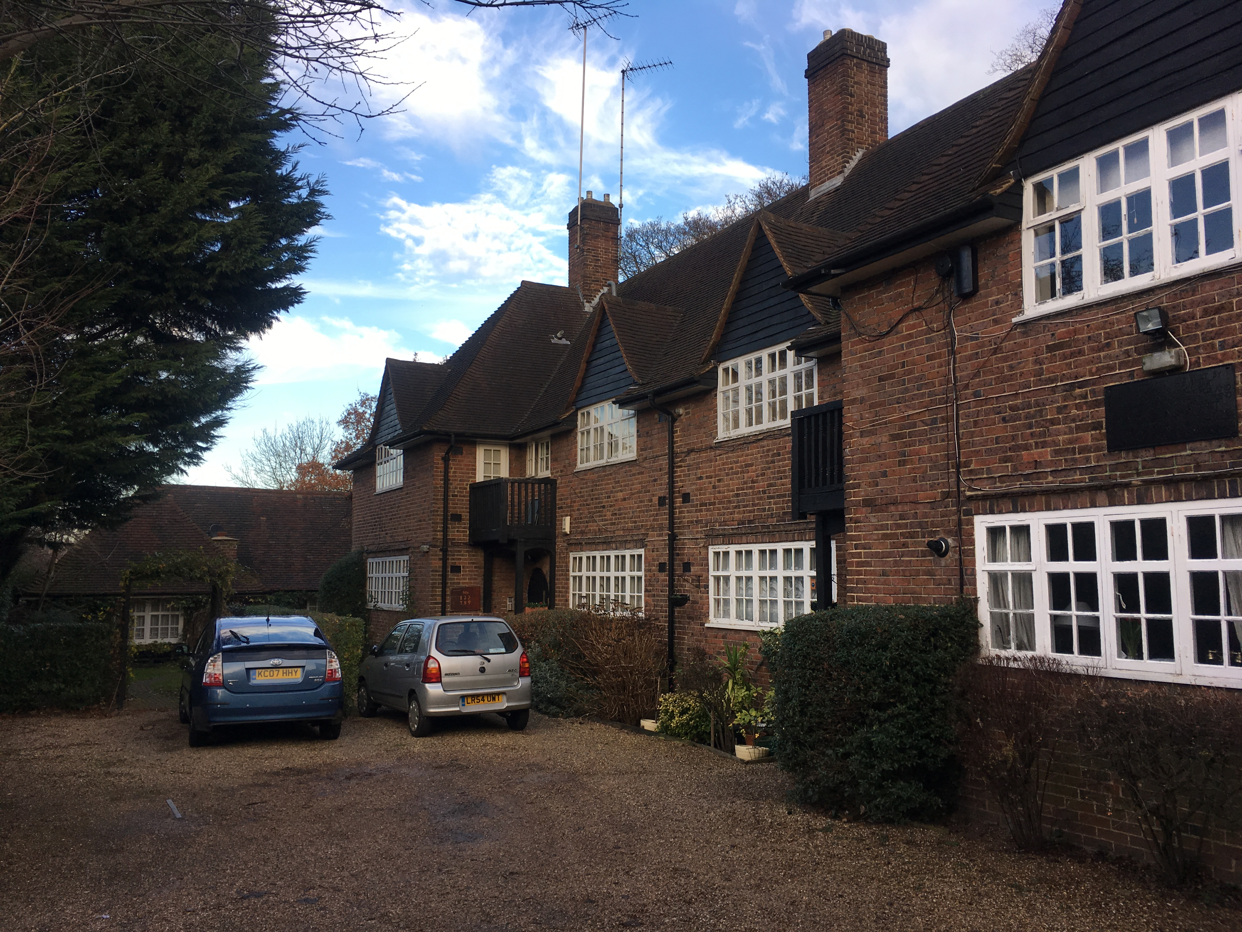 Barnett Homestead Wikidata has entry Q4861631 with data related to this item.